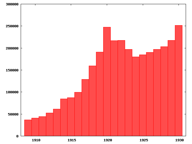 Membership number of the Dutch labor union NVV